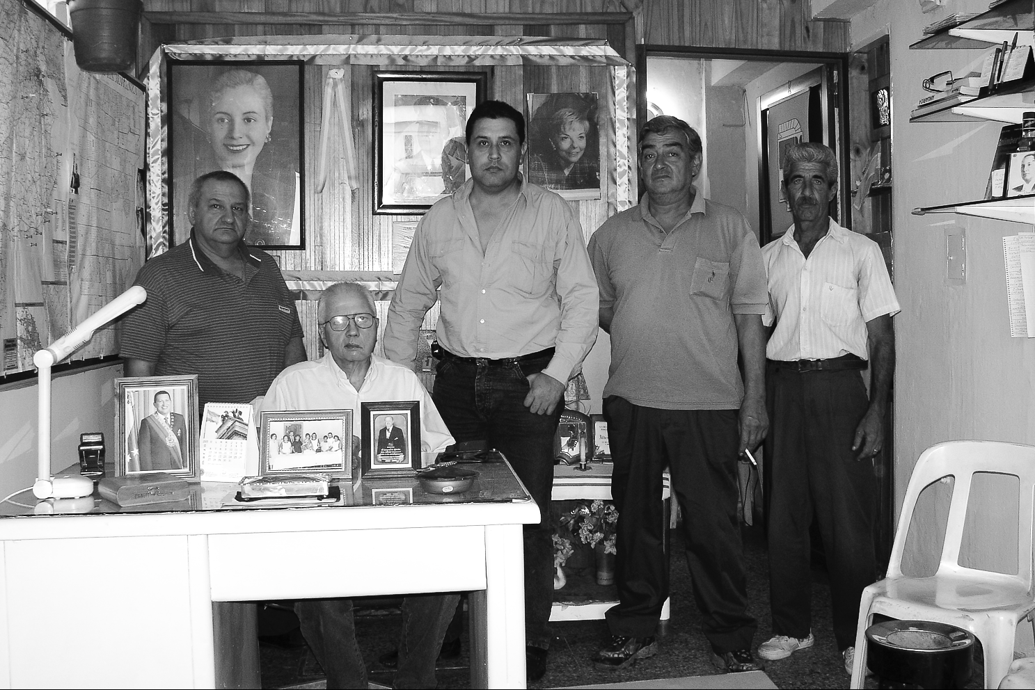 Brito Lima and ex members of his right wing comando de organización